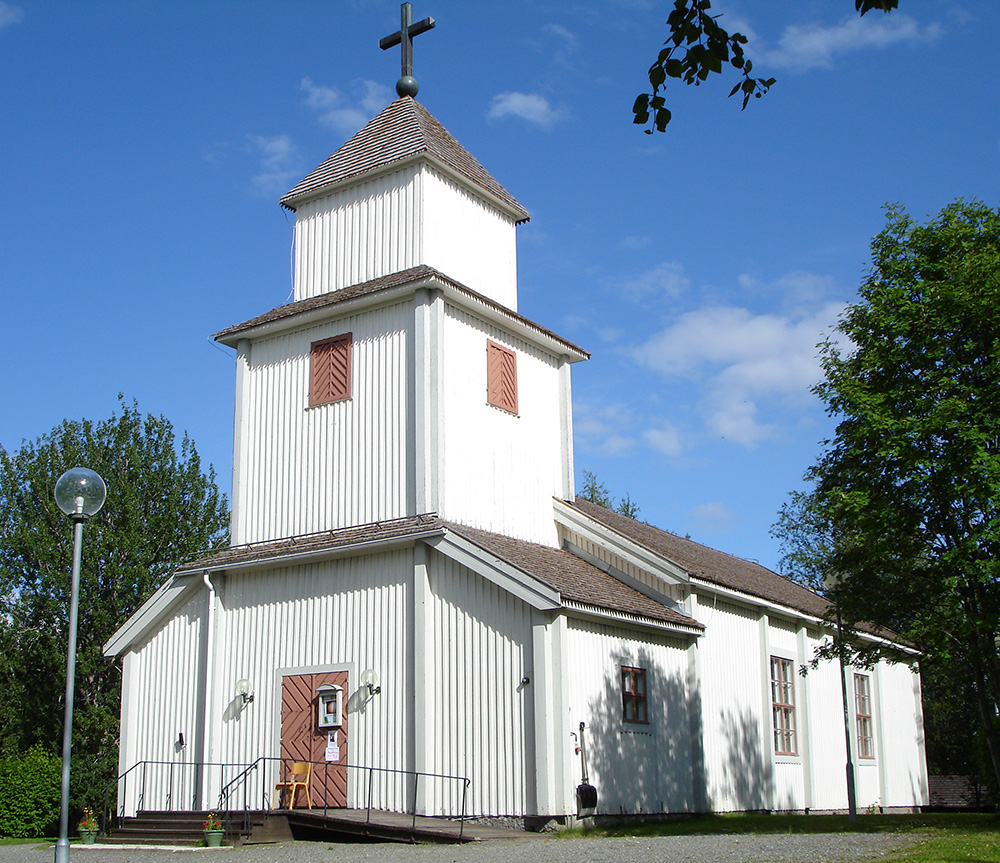 Church of Dikanäs, Vilhelmina parish, Sweden.